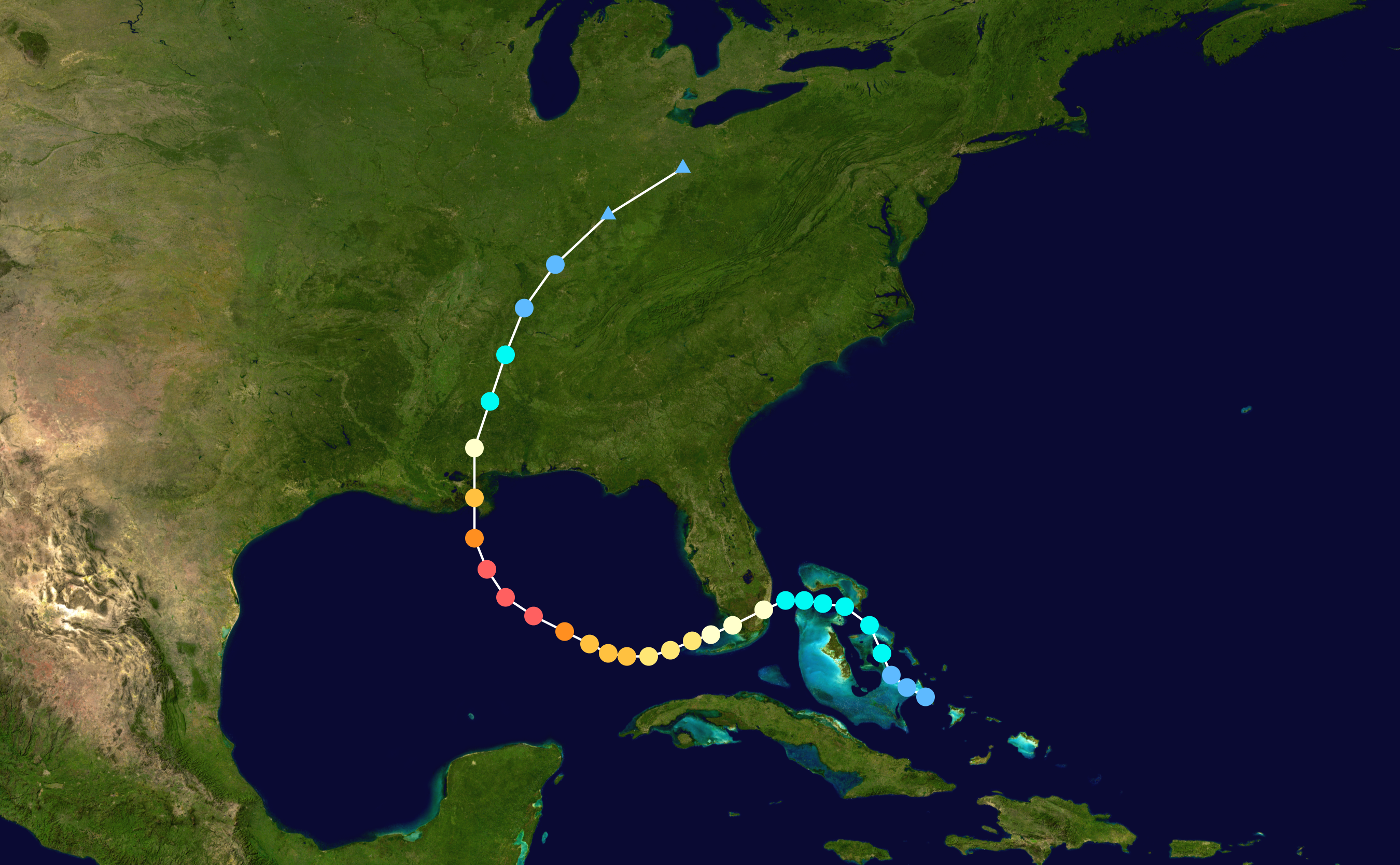 Track map of Hurricane Katrina of the 2005 Atlantic hurricane season. The points show the location of the storm at 6-hour intervals. The colour represents the storm's maximum sustained wind speeds as classified in the Saffir–Simpson scale (see below), and the shape of the data points represent the nature of the storm, according to the legend below. Saffir–Simpson scale Tropical depression≤38 mph≤62 km/h Category 3111–129 mph178–208 km/h Tropical storm39–73 mph63–118 km/h Category 4130–156 mph209–251 km/h Category 174–95 mph119–153 km/h Category 5≥157 mph≥252 km/h Category 296–110 mph154–177 km/h Unknown Storm type Tropical cyclone Subtropical cyclone Extratropical cyclone / Remnant low / Tropical disturbance / Monsoon depression